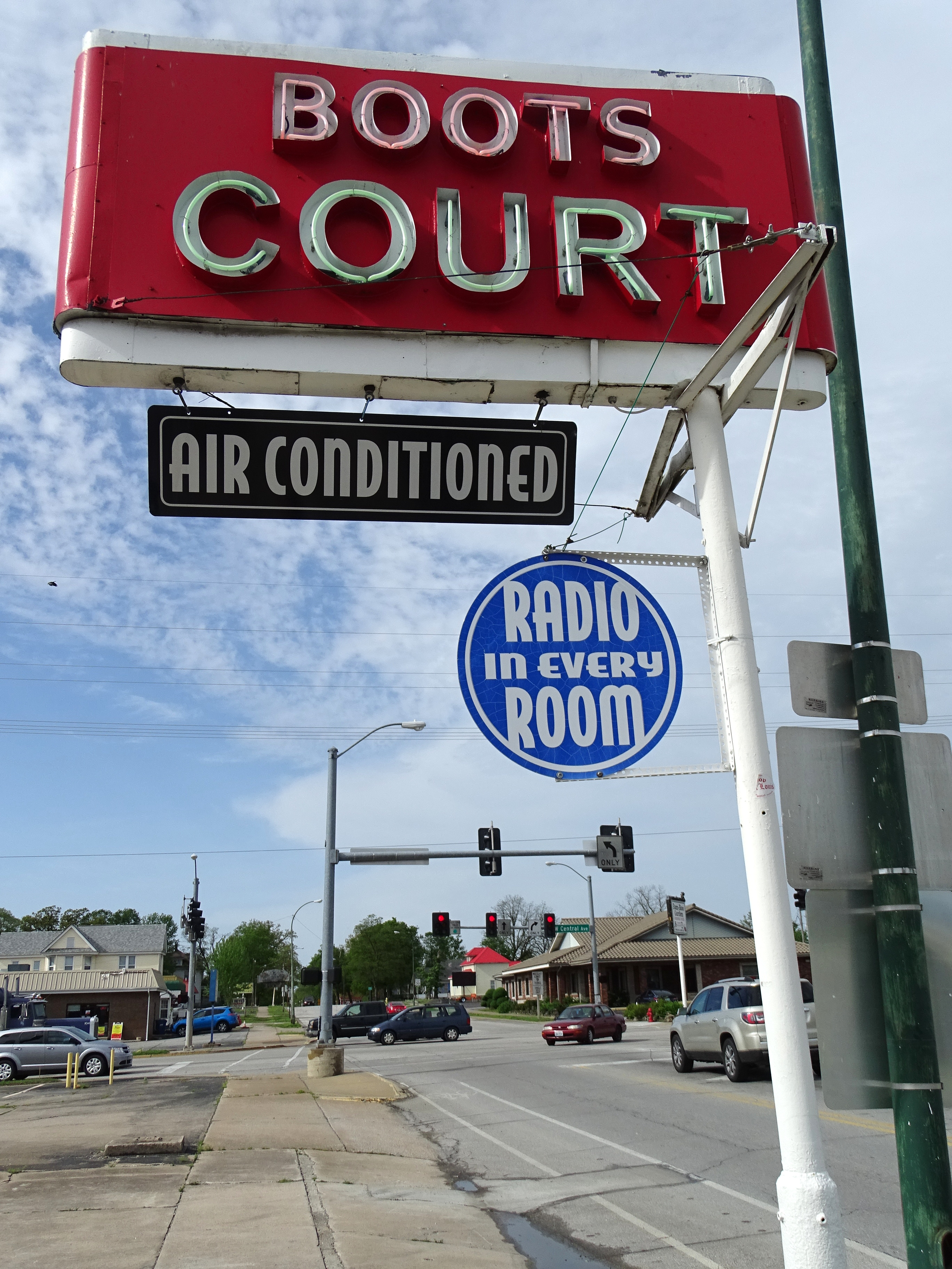 Sign of Boots Court Motel - Carthage - Missouri - USA